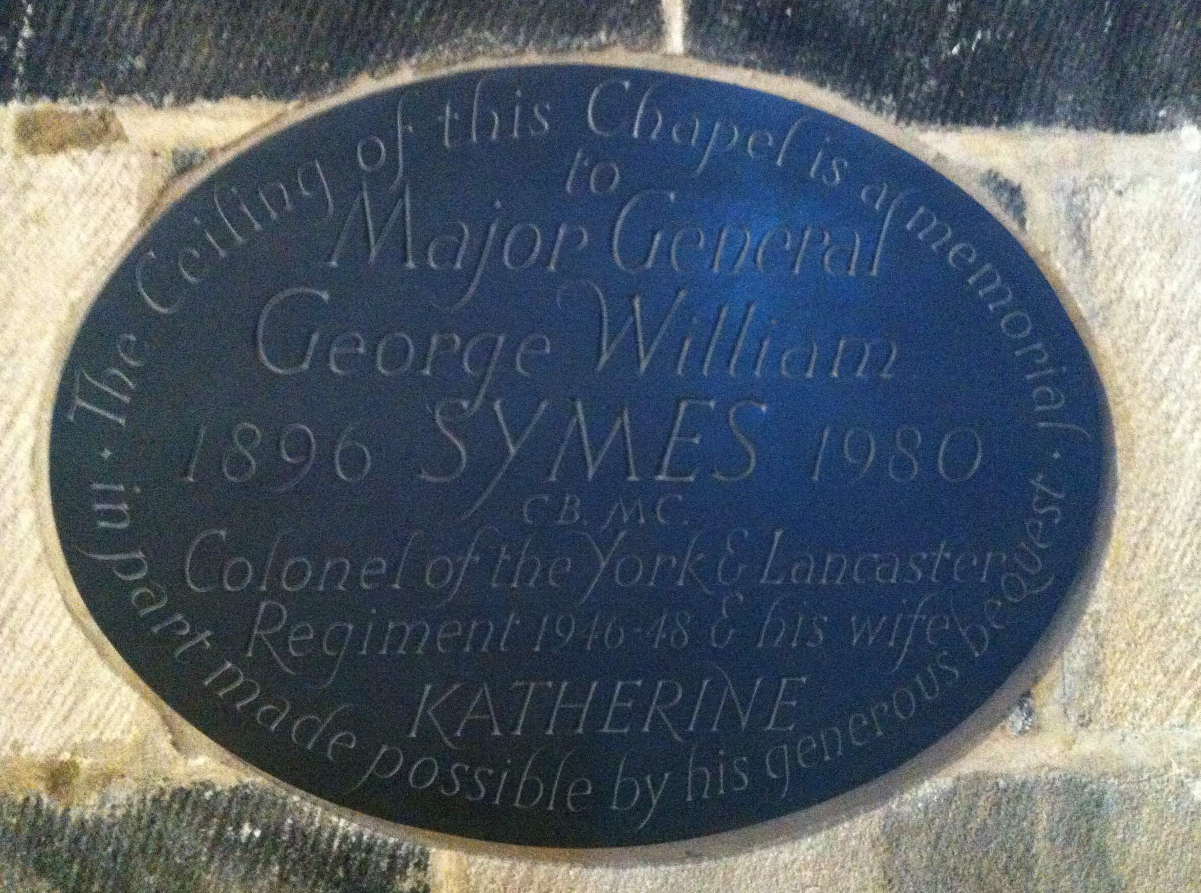 Major General George William Symes CB, MC, (1896-1980). Colonel of the York and Lancaster Regiment 1946 - 1948, and his wife Katherine